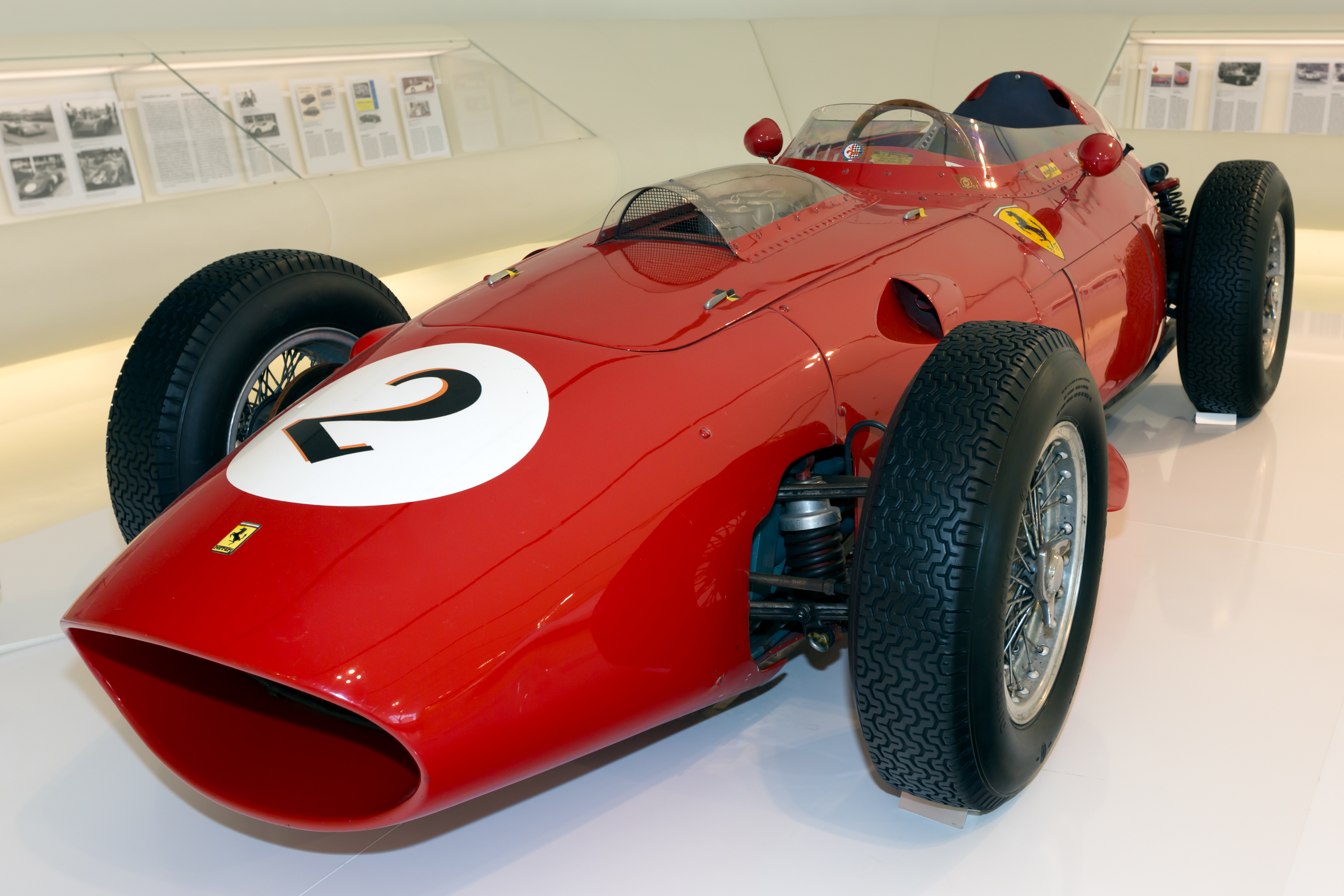 1957 Ferrari 246 F1 "Dino"